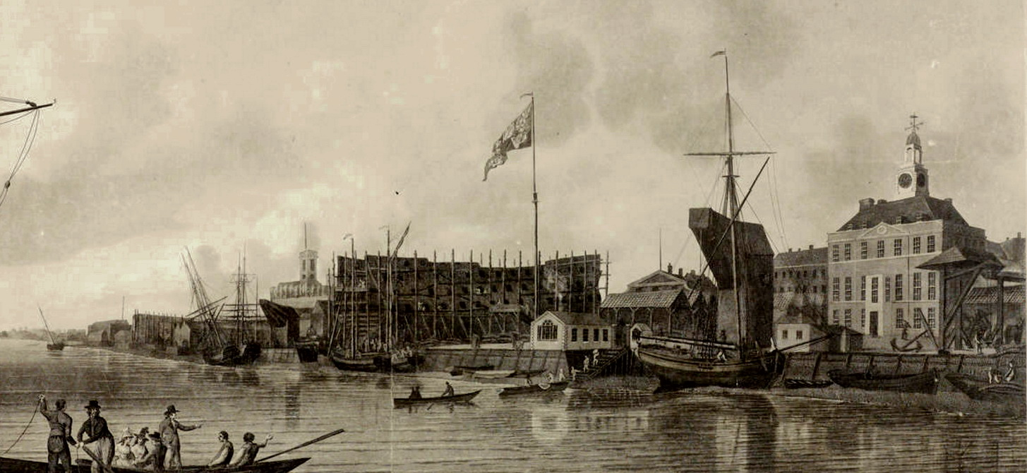 View of the Royal Dockyard at Woolwich, looking down the River Thames with figures in boats in the foreground. Drawing and engraving by Robert Dodd (1789). Collection of the London Metropolitan Archives.